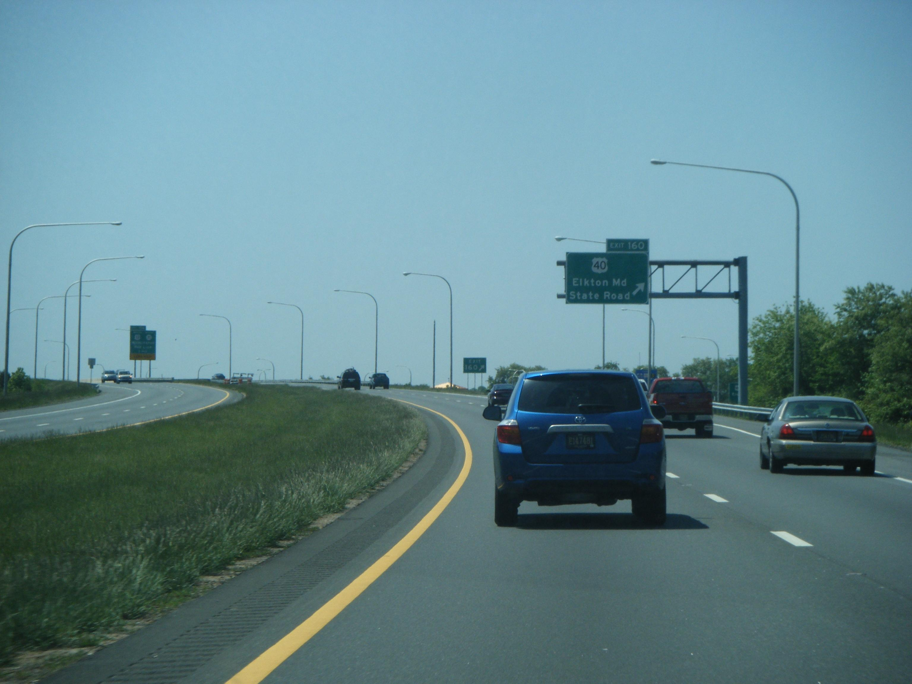 Southbound Delaware Route 1 at the exit for U.S. Route 40 (exit 160) in Bear, Delaware.